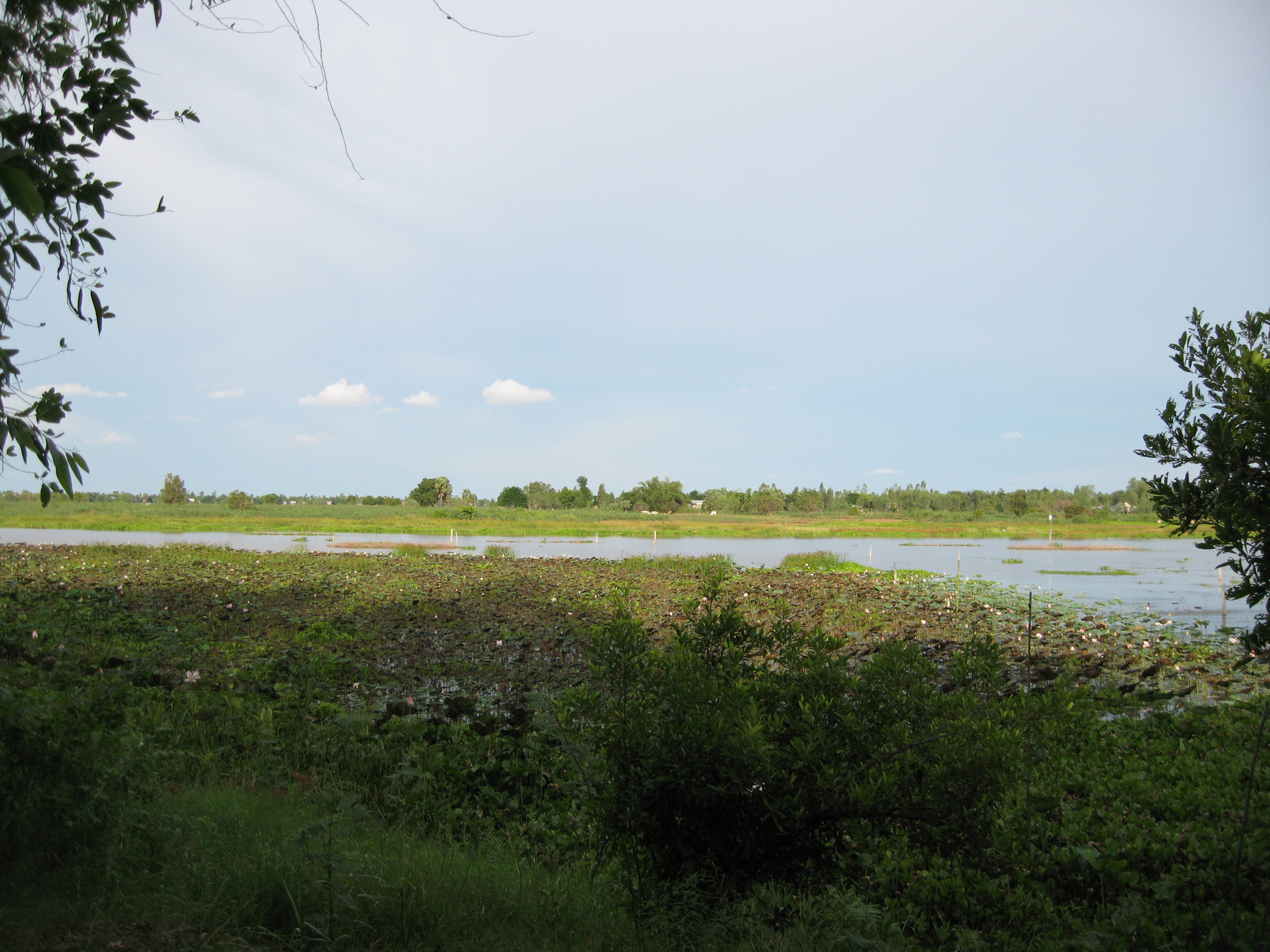 Picture of my home town in Kiensvay District, Kandal Province, Cambodia.